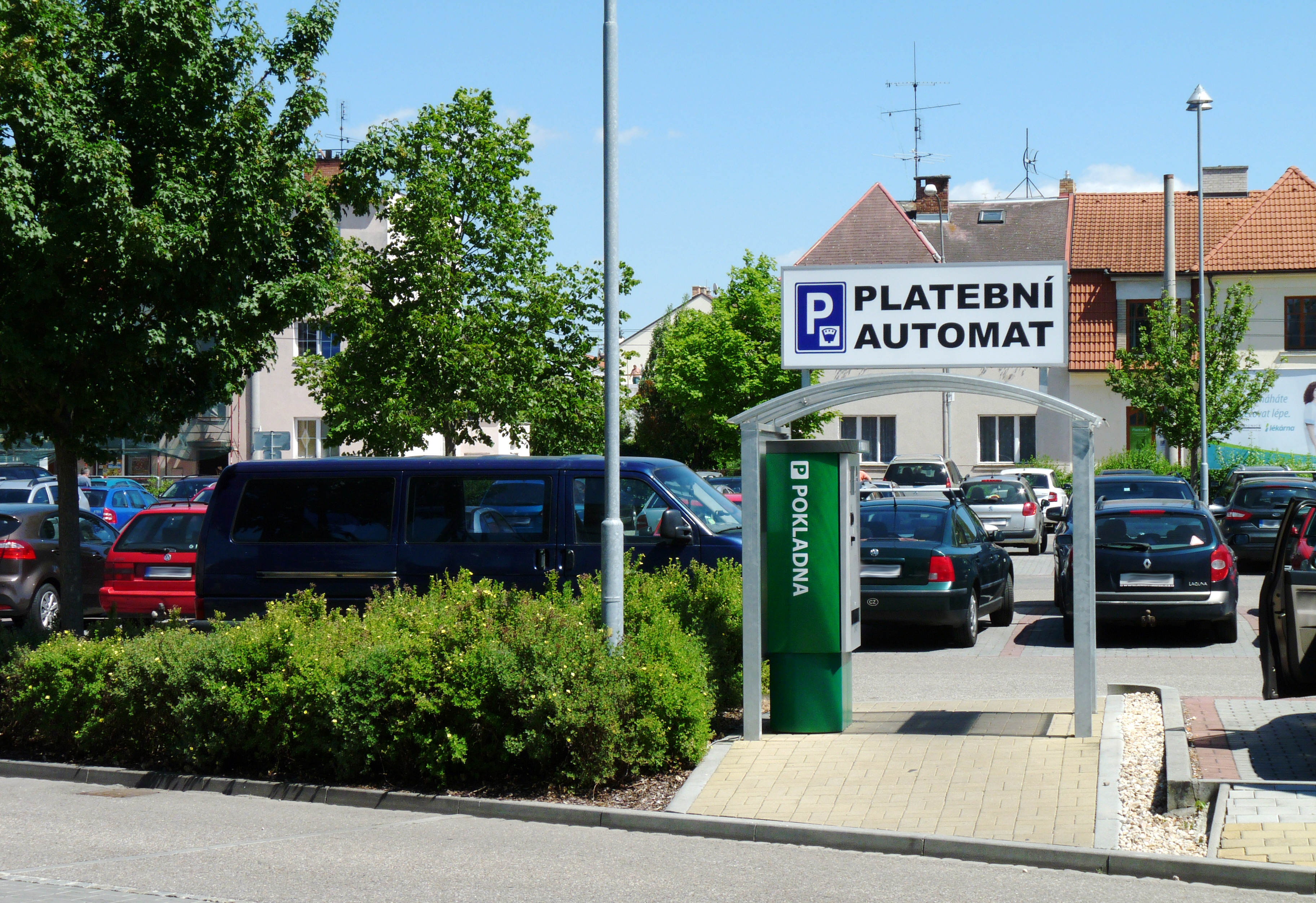 Parking meter in the hospital in České Budějovice, South Bohemian Region, Czech Republic.